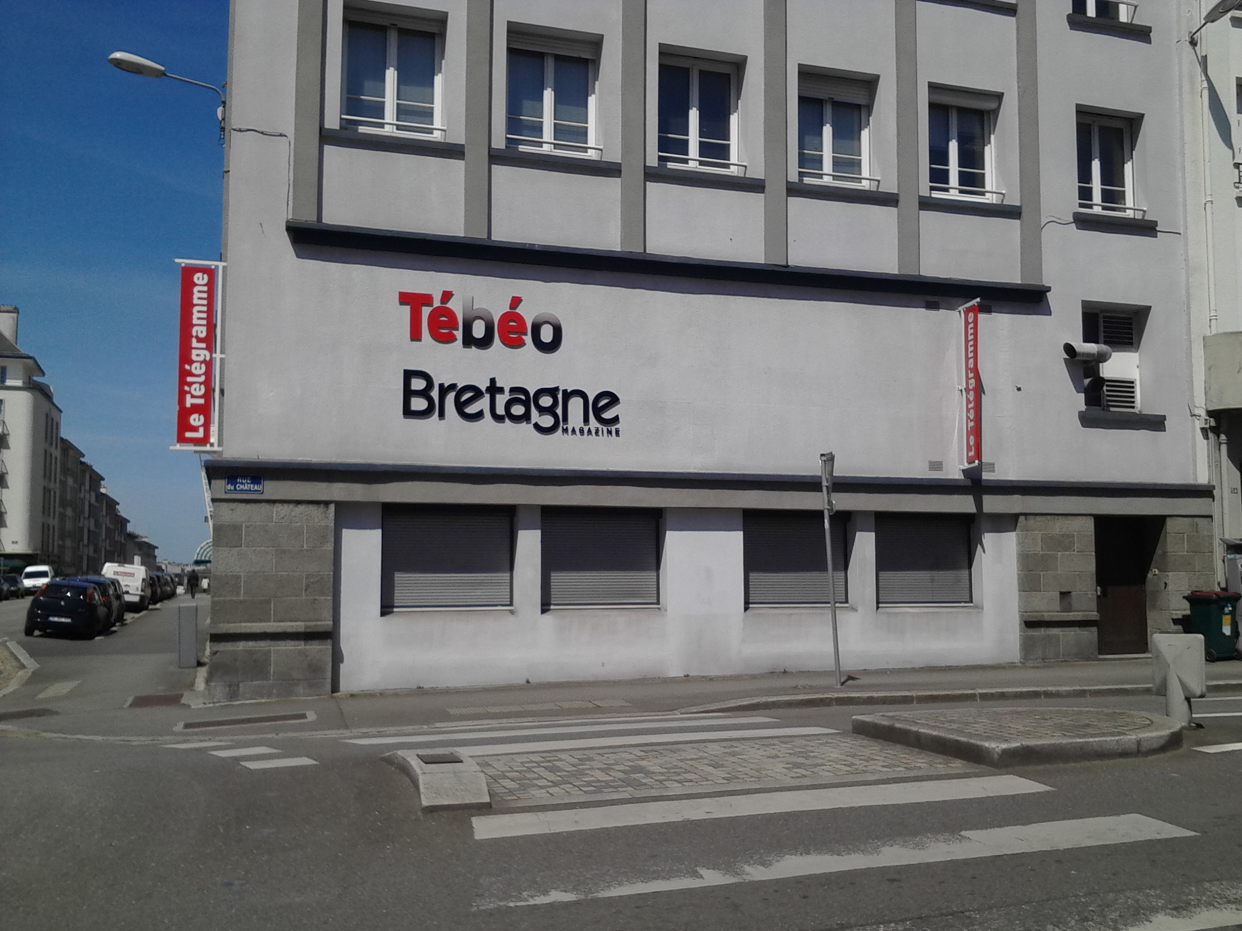 Downtown, 29200 Brest, France